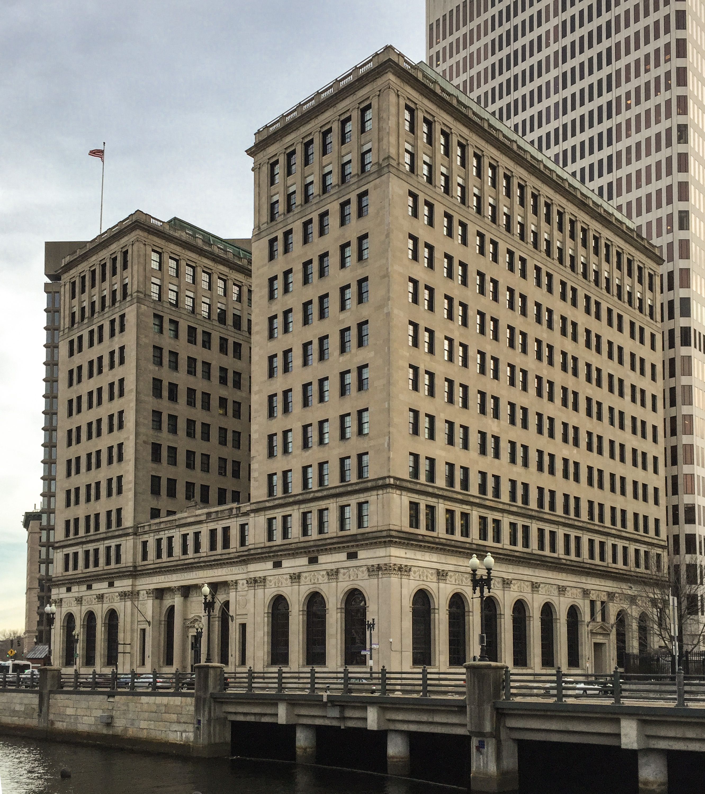 Rhode Island Hospital Trust Building. Providence, RI. Taken Feb 2017.